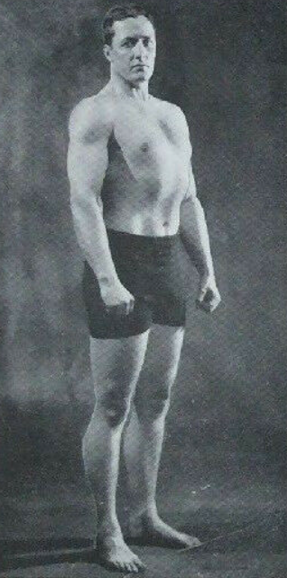 American bodybuilder Bob Hoffman in 1933.